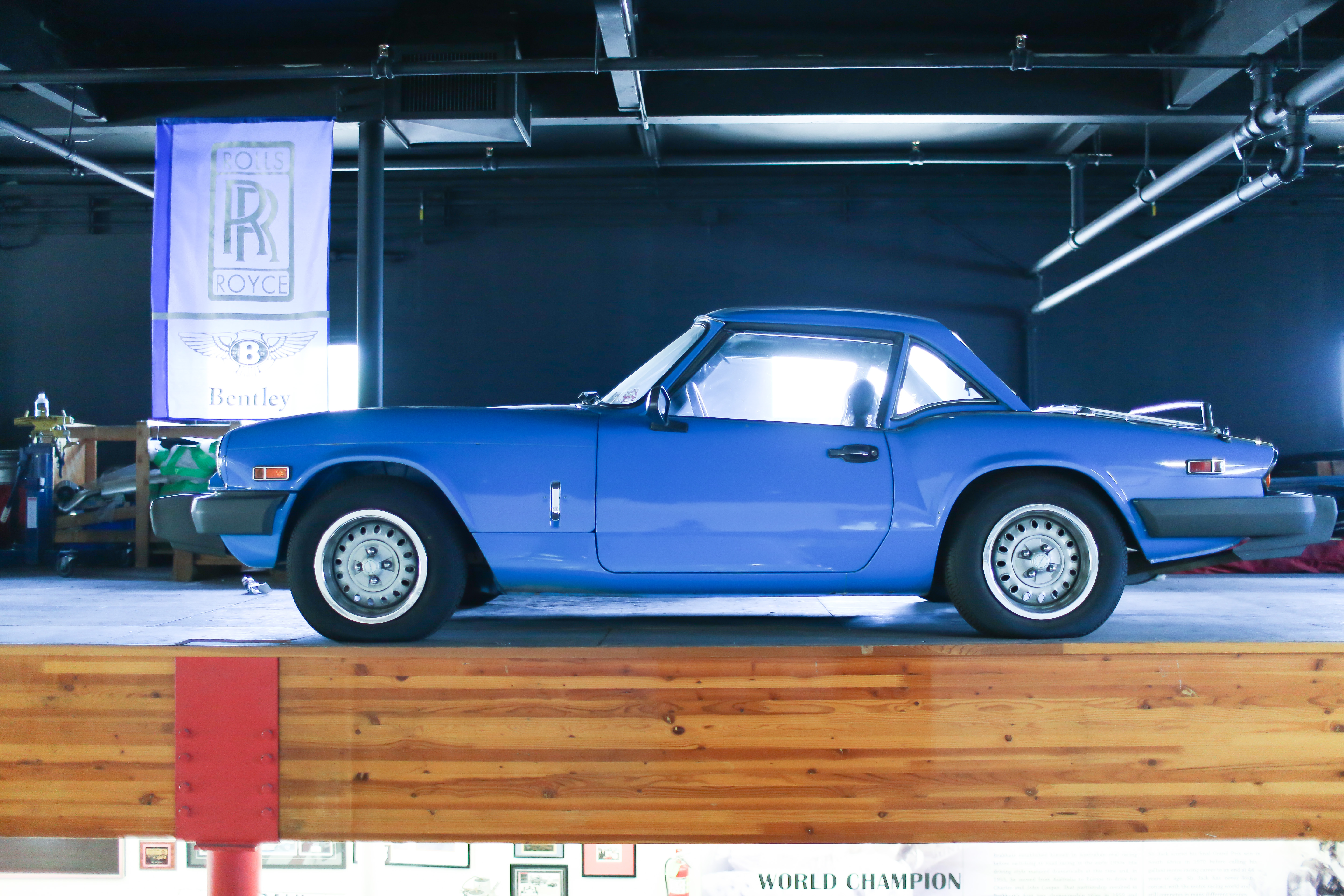 The 1979 Triumph Spitfire housed at the Marconi Automotive Museum.